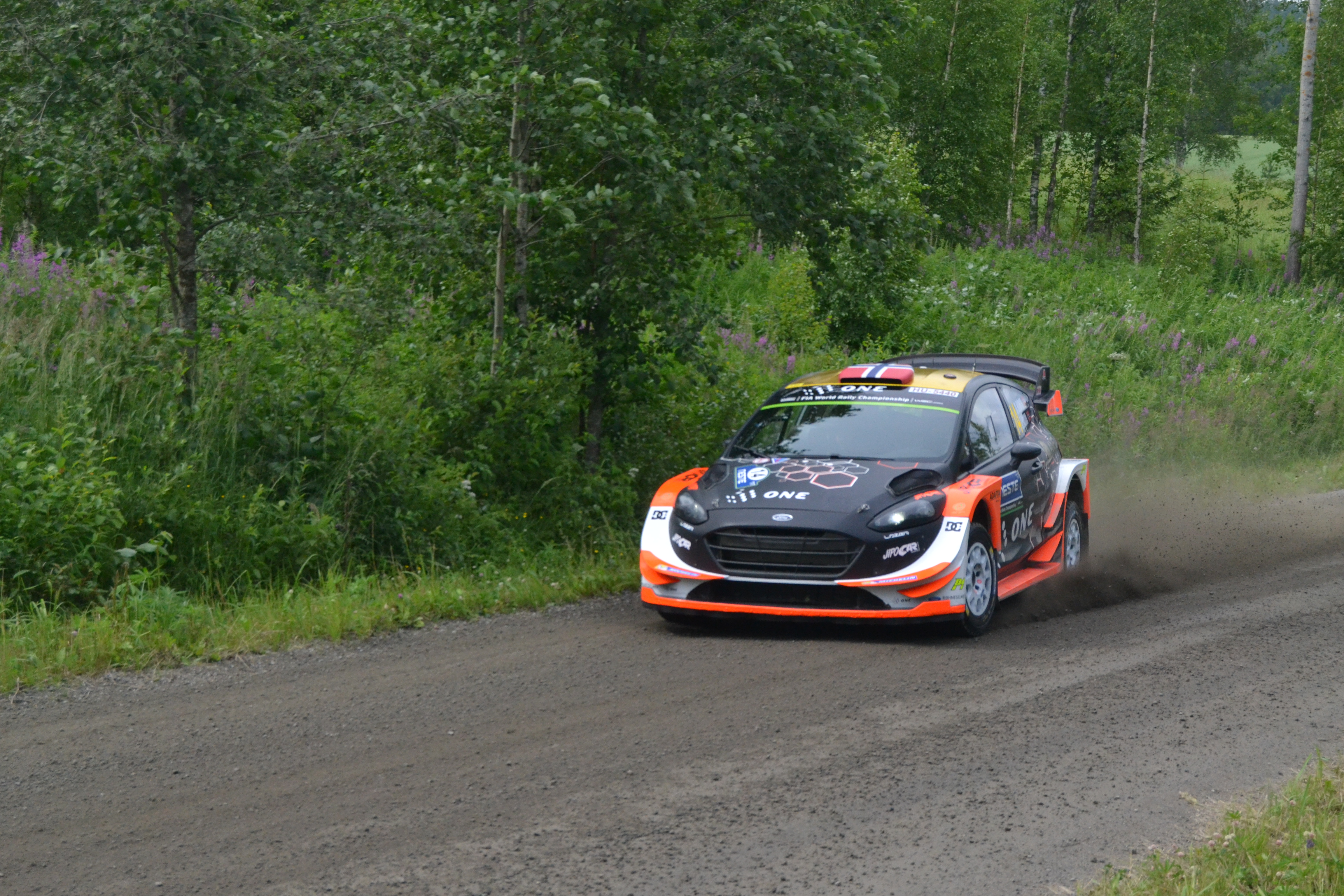 Mads Østberg at second Saalahti stage at Rally Finland 2017